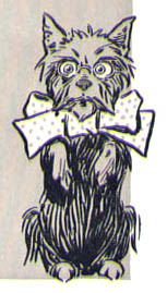 An illustration by W. W. Denslow from The Wonderful Wizard of Oz, also known as The Wizard of Oz, a 1900 children's novel by L. Frank Baum.